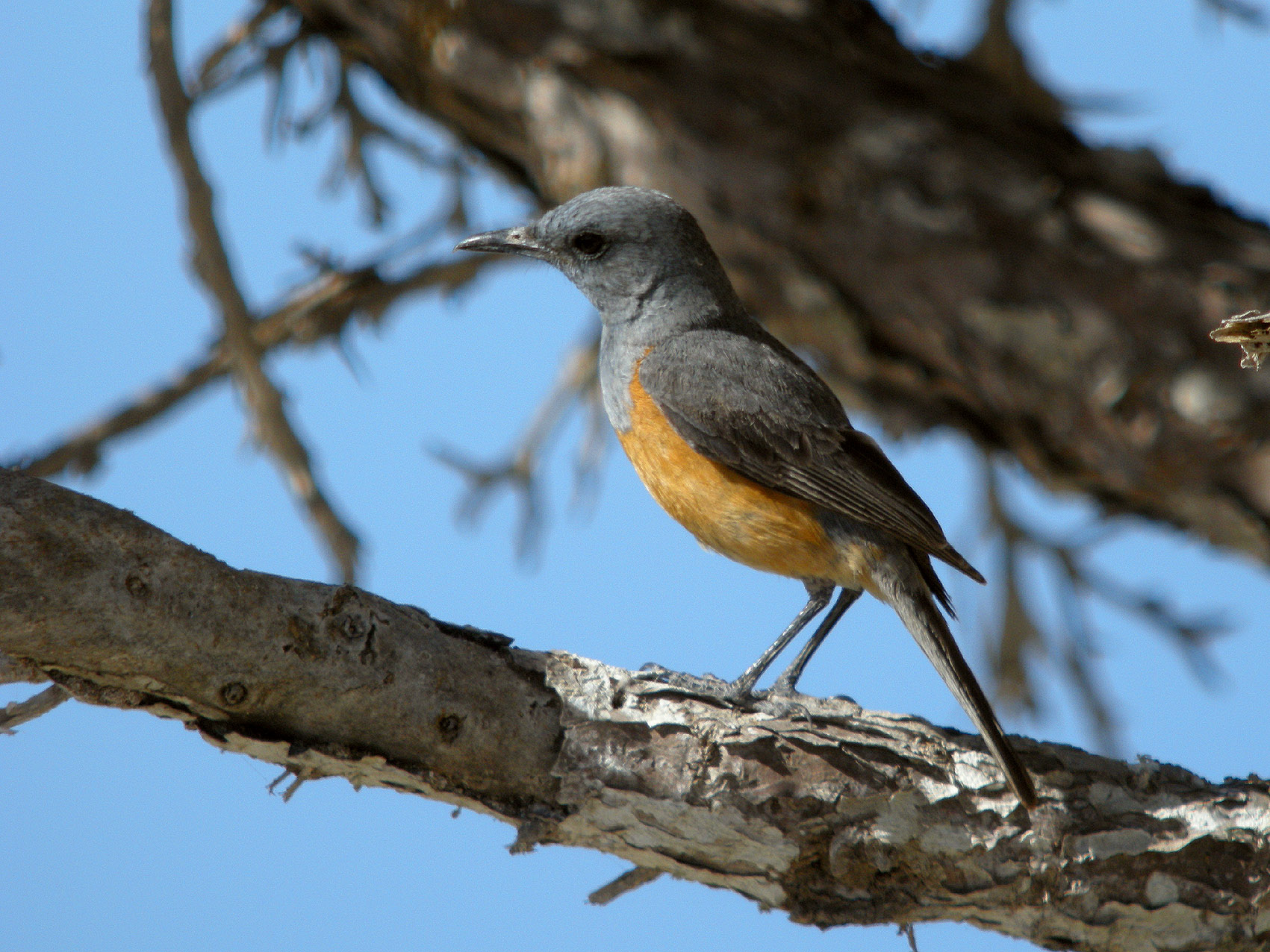 Littoral Rock Thrush, Ambola, Madagascar Swarowski 80 HD 30 X, Coolpix P5100 (Adapter DCB)